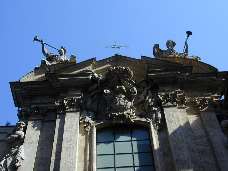 Rome, window of the facade of St. Anthony of the